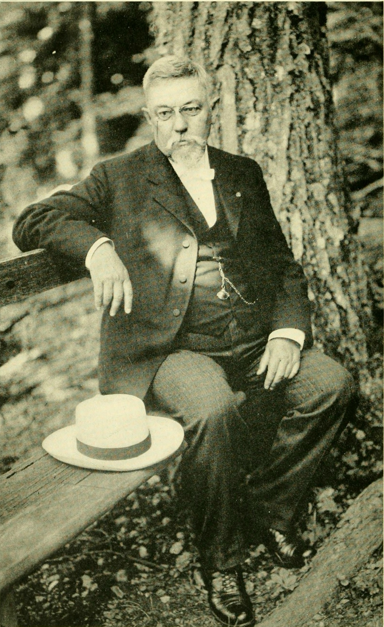 Portrait photograph of Pennsylvania governor Samuel W. Pennypacker.